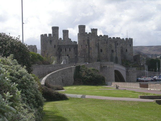 Conwy Castle